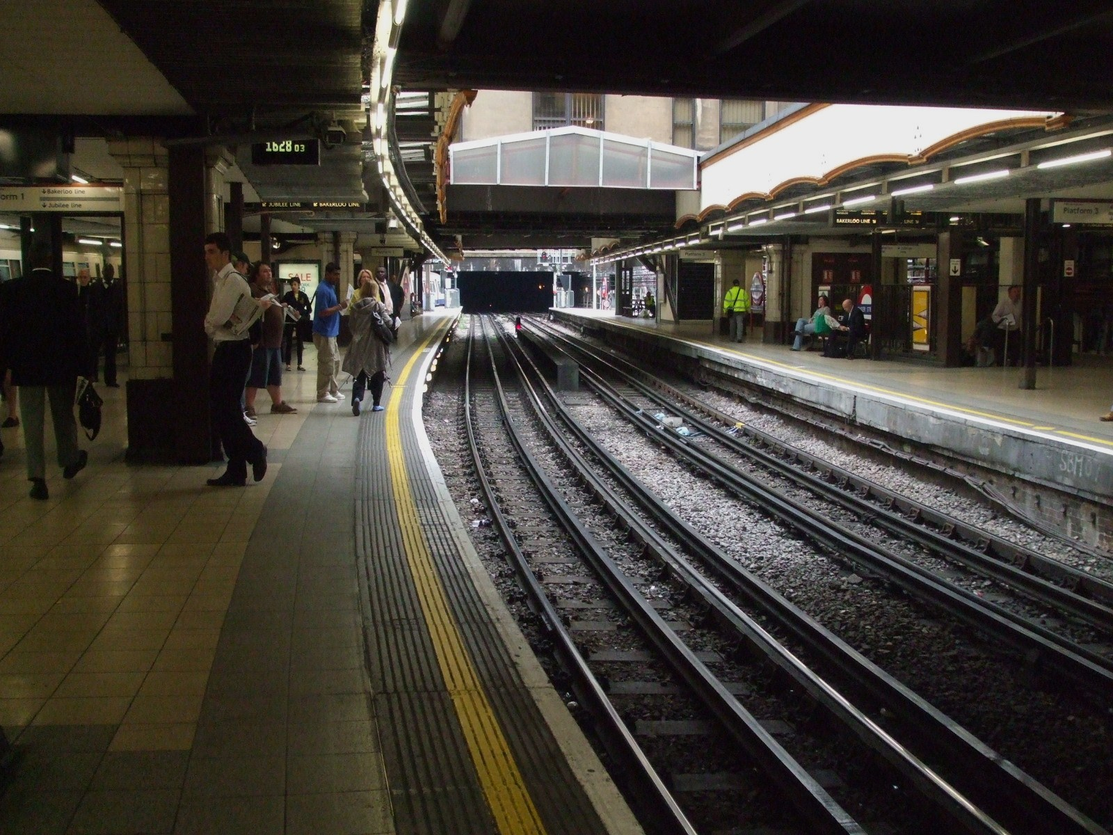 Baker Street tube station Metropolitan line through platforms looking north.